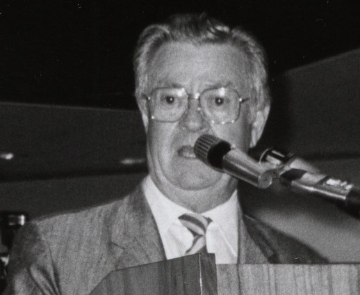 Louie Welch standing at podium